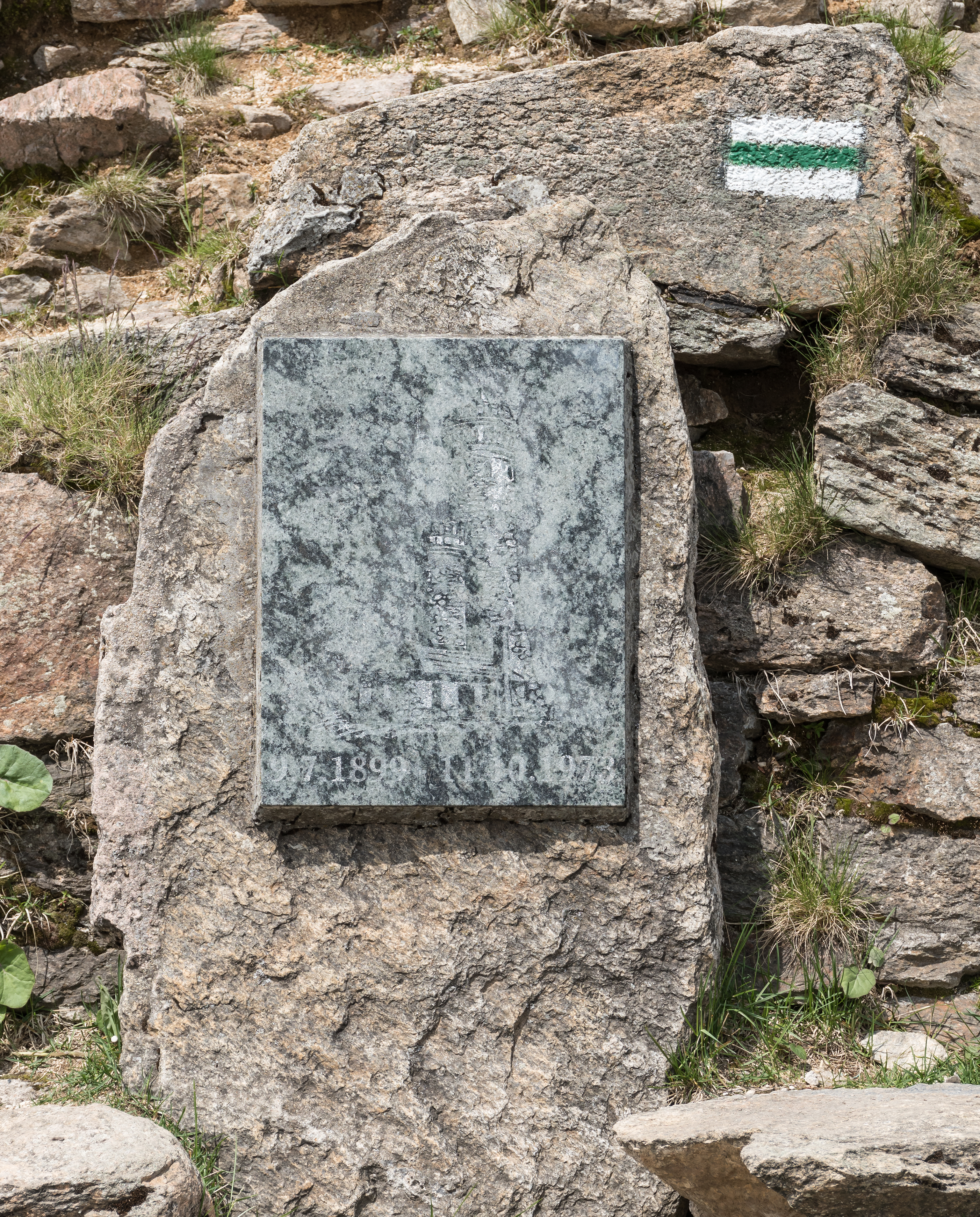 Plague on Śnieżnik